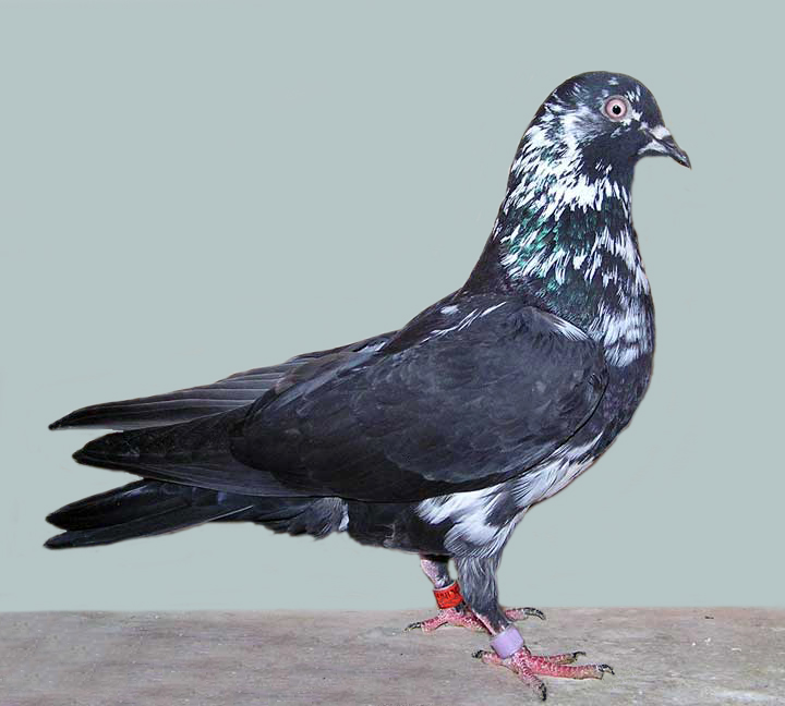 French Tumbler (Black Grizzled)